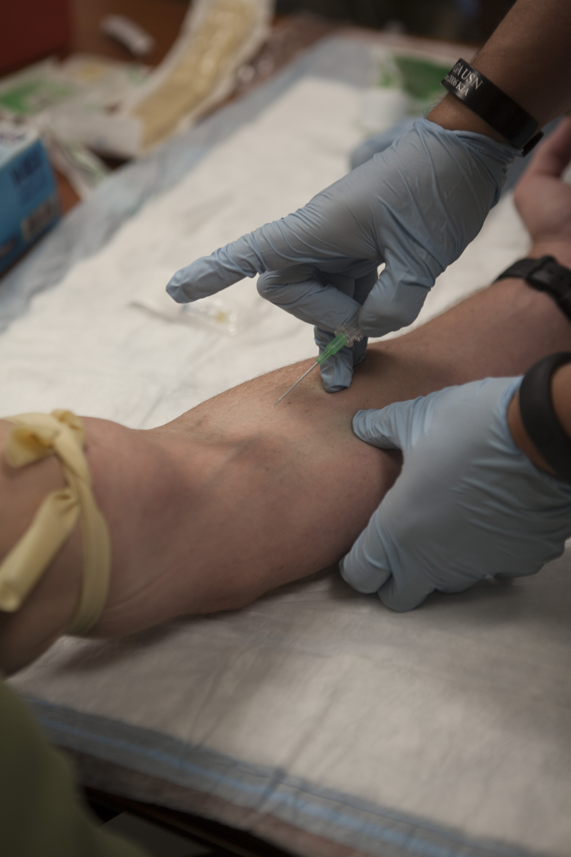 Petty Officer 1st Class Eric Ancheta, a Special-Purpose Marine Air-Ground Task Force Africa 13 corpsman from Whittier, Calif., demonstrates intravenous access during the Tactical Combat Casualty Care course here, March 12, 2013. The TCCC course teaches basic first-responder skills and helps service members prioritize casualty care in combat situations to maximize safety and effective care. Special-Purpose MAGTF Africa strengthens US Marine Corps Forces Africa and US Africa Command’s ability to assist partner nations in addressing their security challenges. The approximately 150 Marines and sailors conduct security force assistance, military-to-military engagements and are trained to provide support to crisis response. (Marine Corps photo by Cpl. Timothy Norris/Released)